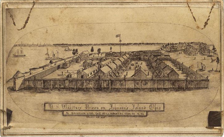 Still Image Drawing File Name: Q1298 Item Title: "U.S. Military Prison on Johnson's Island Ohio."